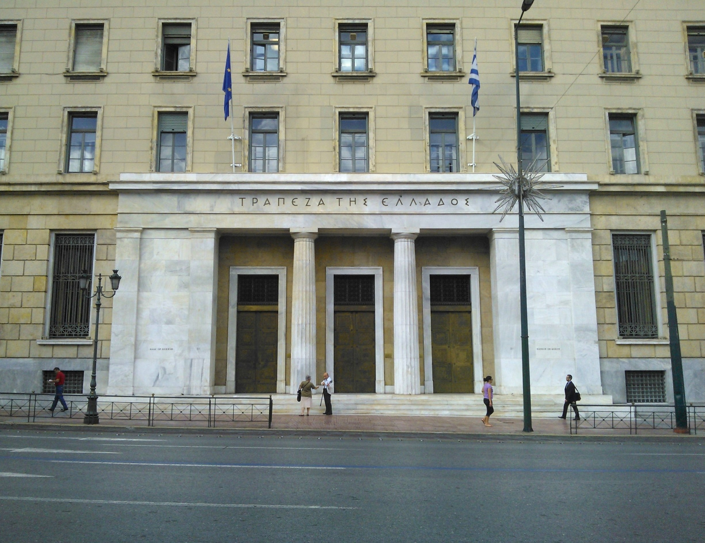 The main entrance to the Bank of Greece central building located at Panepistimiou St, Athens, as seen in September 2014. The inscription above the entrance reads "ΤΡΑΠΕΖΑ ΤΗΣ ΕΛΛΑΔΟΣ", meaning (word by word) "BANK OF GREECE".